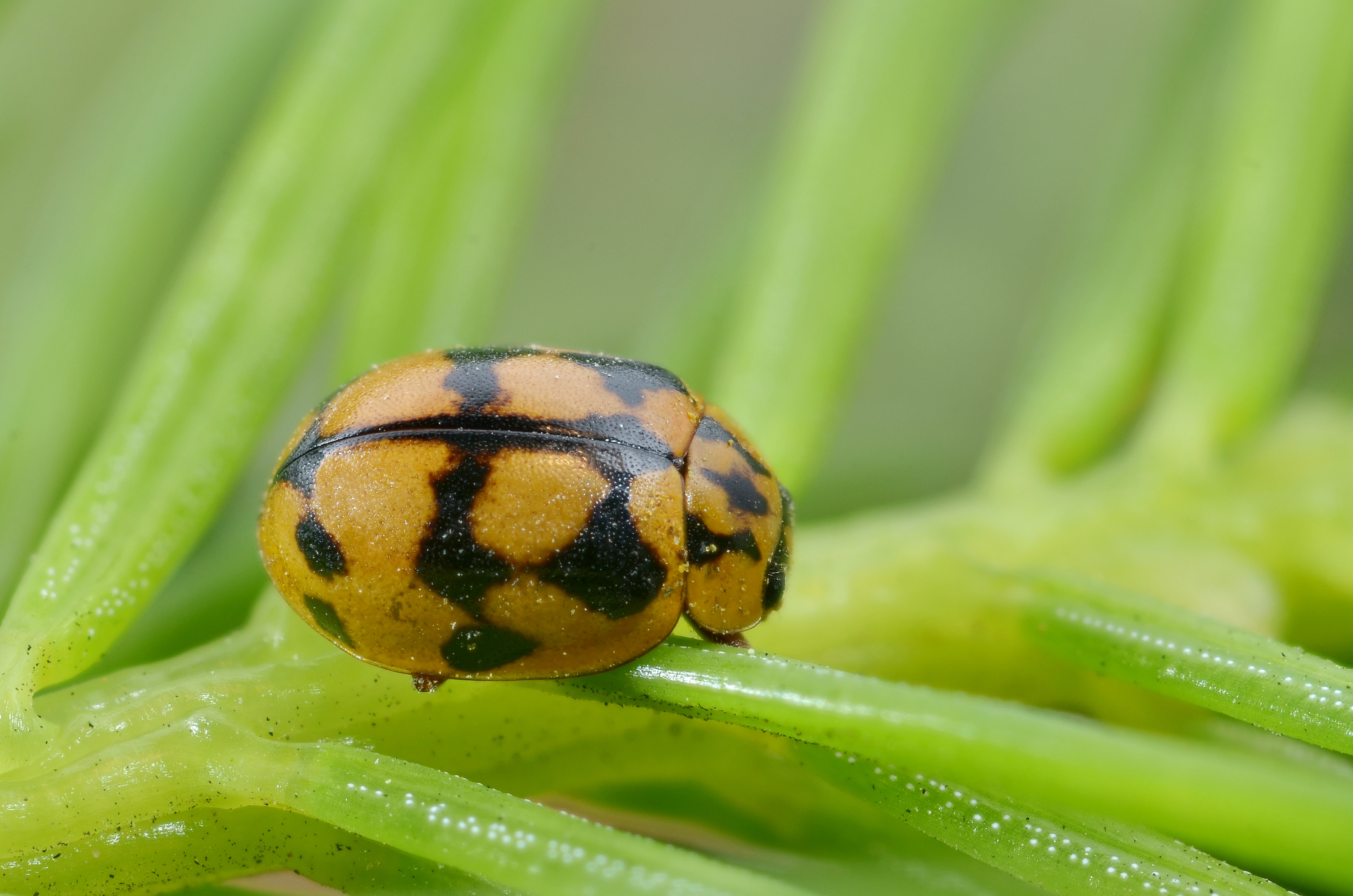 Focus Stack of 3 handheld images with the micro-nikkor 60 mm on extension tubes (dead specimen)